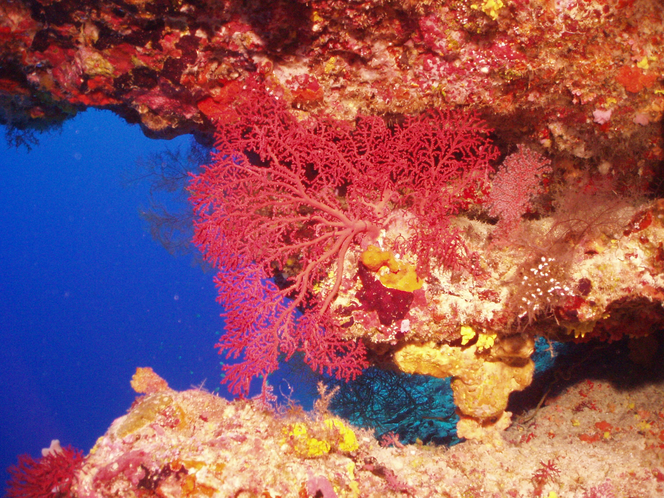 Coral in the reef of the Chagos Archipelago.